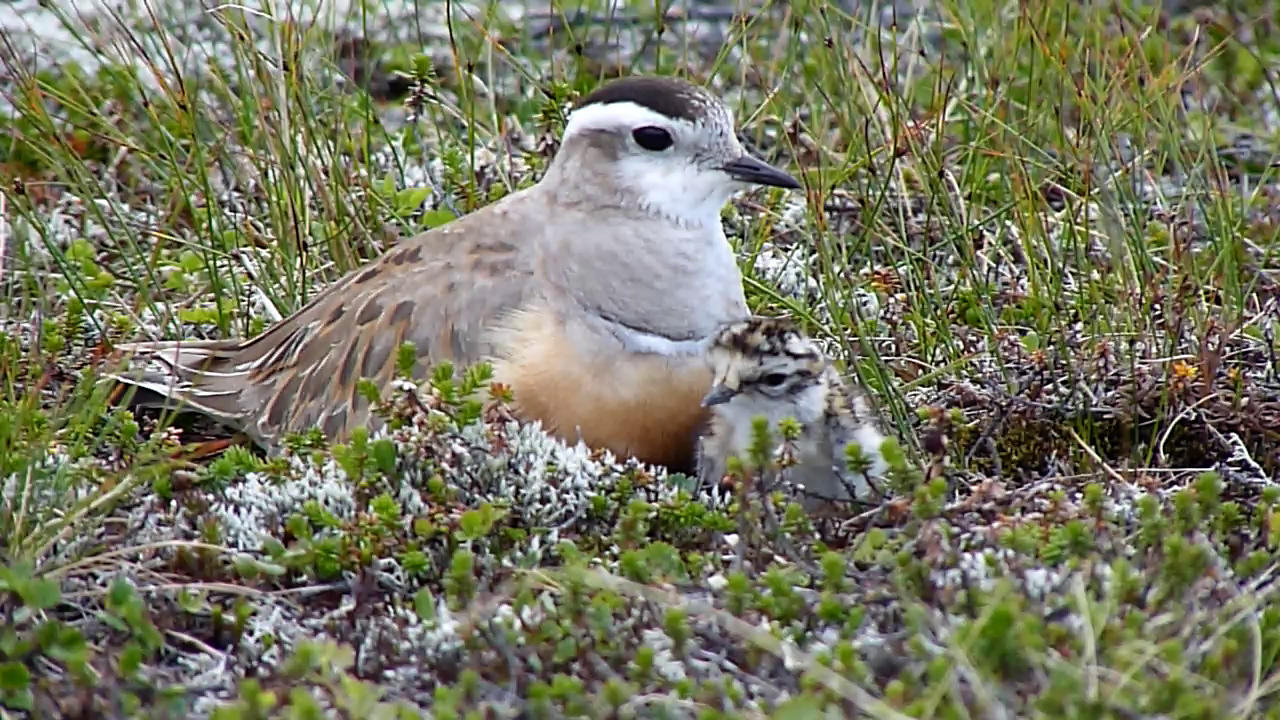 Female Dotterel with chick - only 4th record ever